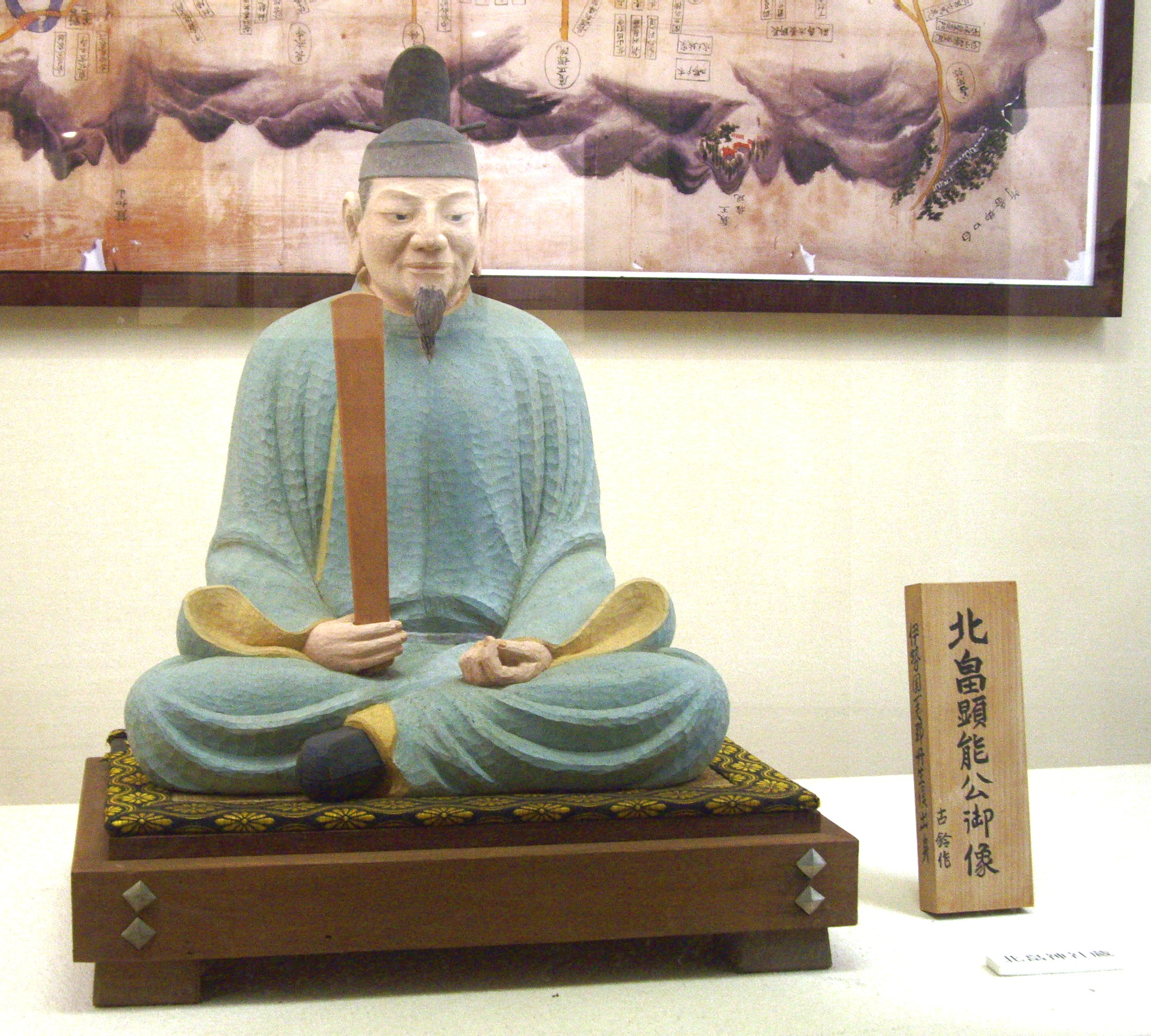 Seated figure of Kitabatake Akiyoshi